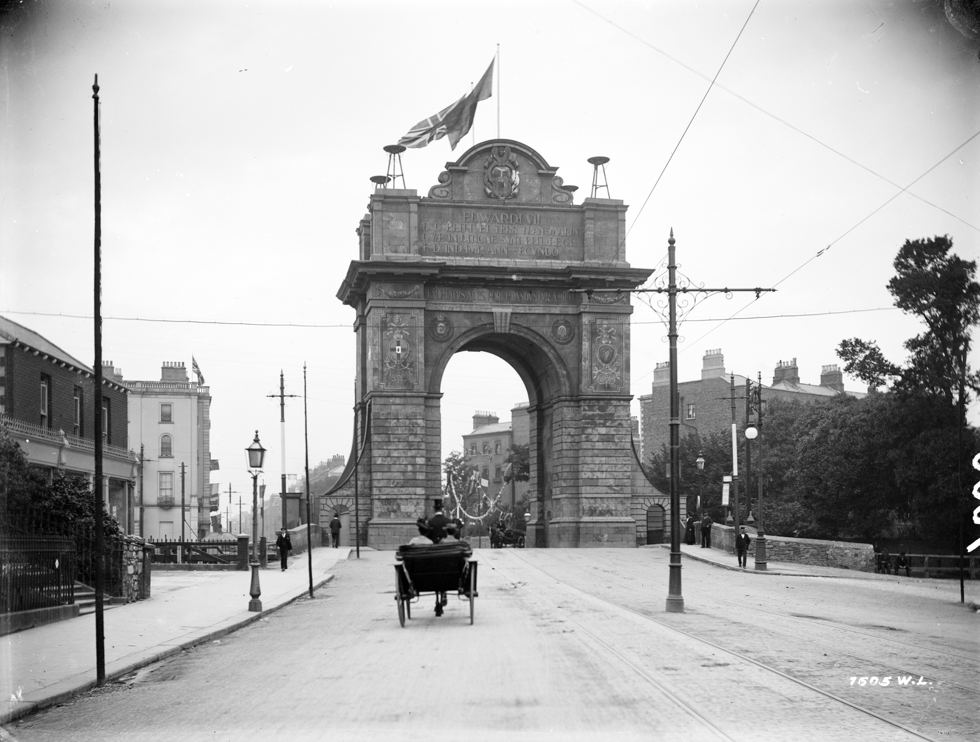 This one gave me a real "What the hell" moment! Thought that it was a triumphal arch erected for one of the visits of Edward VII to Dublin (1903, 1904, 1907) but didn't know where it was. I felt that it was a bridge over the Grand Canal, but just couldn't work out where. And how and when such a monument disappeared? Passed it over to you, and HibernoManchego came up trumps, saying it "would appear to be for the 1903 visit and was in Leeson Street." Some absolutely fantastic information has come in on this one - see the comments below! Here's the inscription: EDWARDI VII D. G. BRITT. ET TERR. TRANSMARIN. Q VAE IN DITIONE SVNT BRIT REGIS F.D. IND IMP ANN SECVNDO EXOI TATVS ADES PORTAE PANDVNIVR AMICO